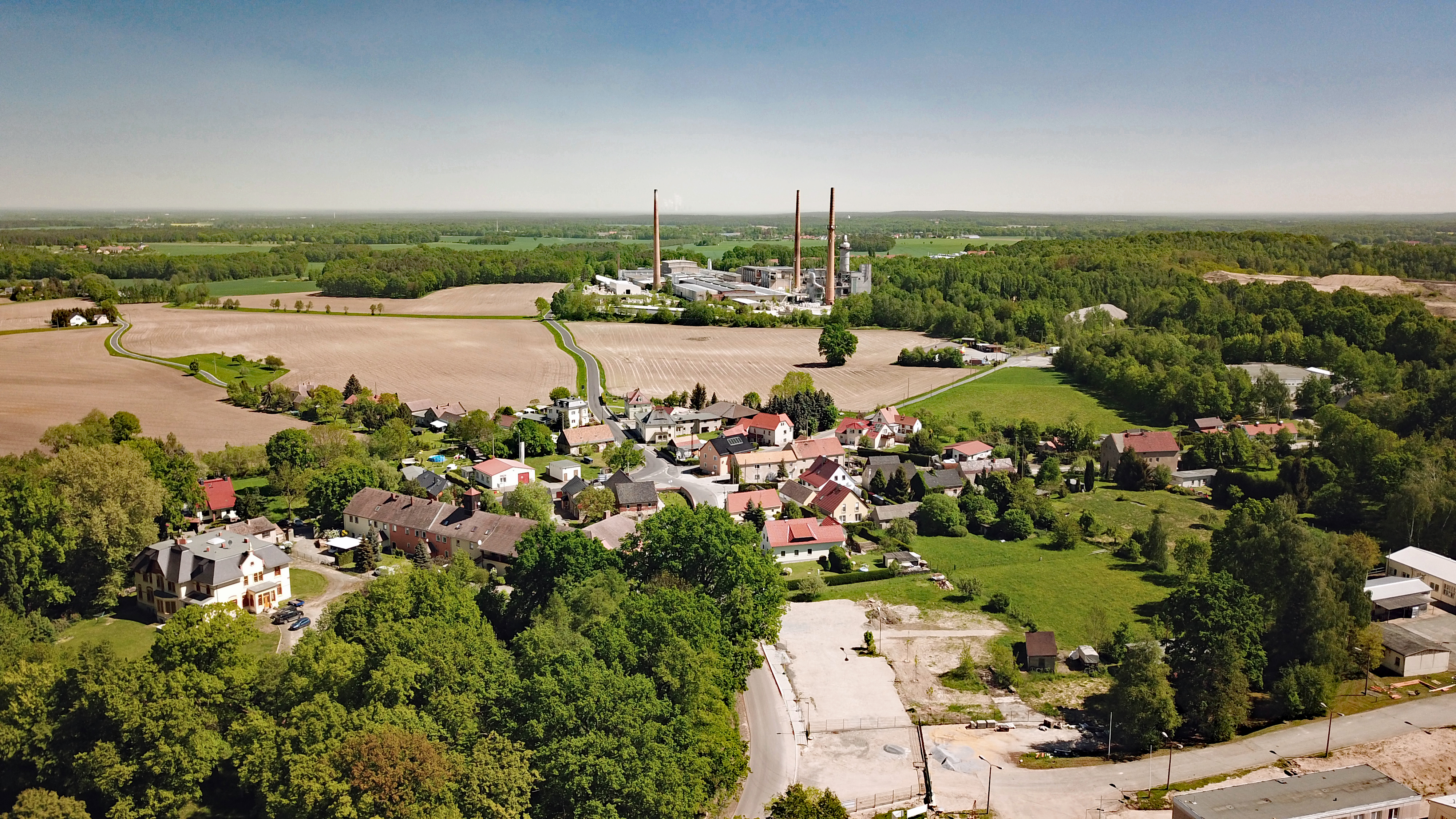 Puschwitz (Saxony, Germany) Hornjoserbsce: Powětrowy wobraz Bóšic